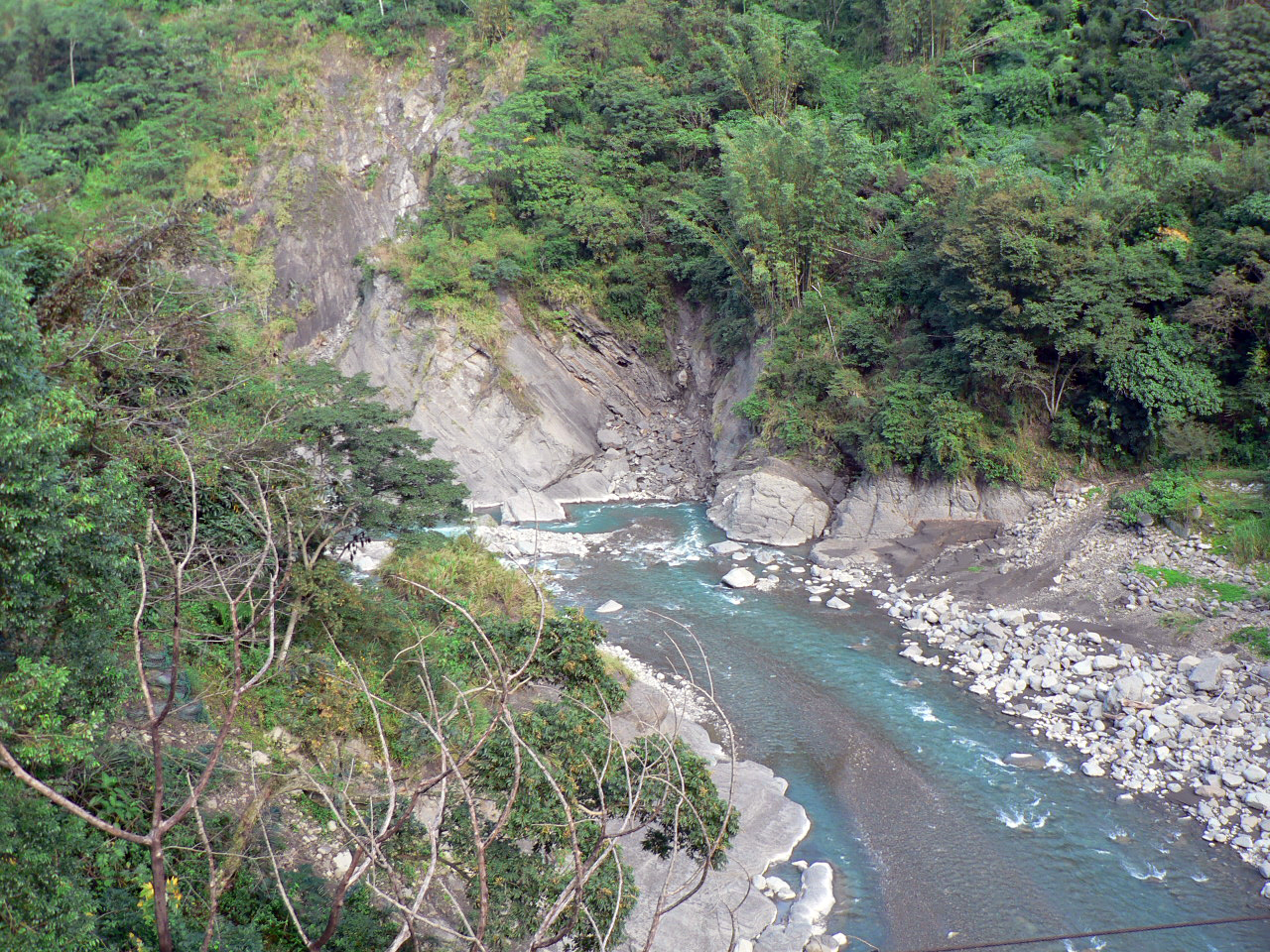 Namasia, Kaohsiung